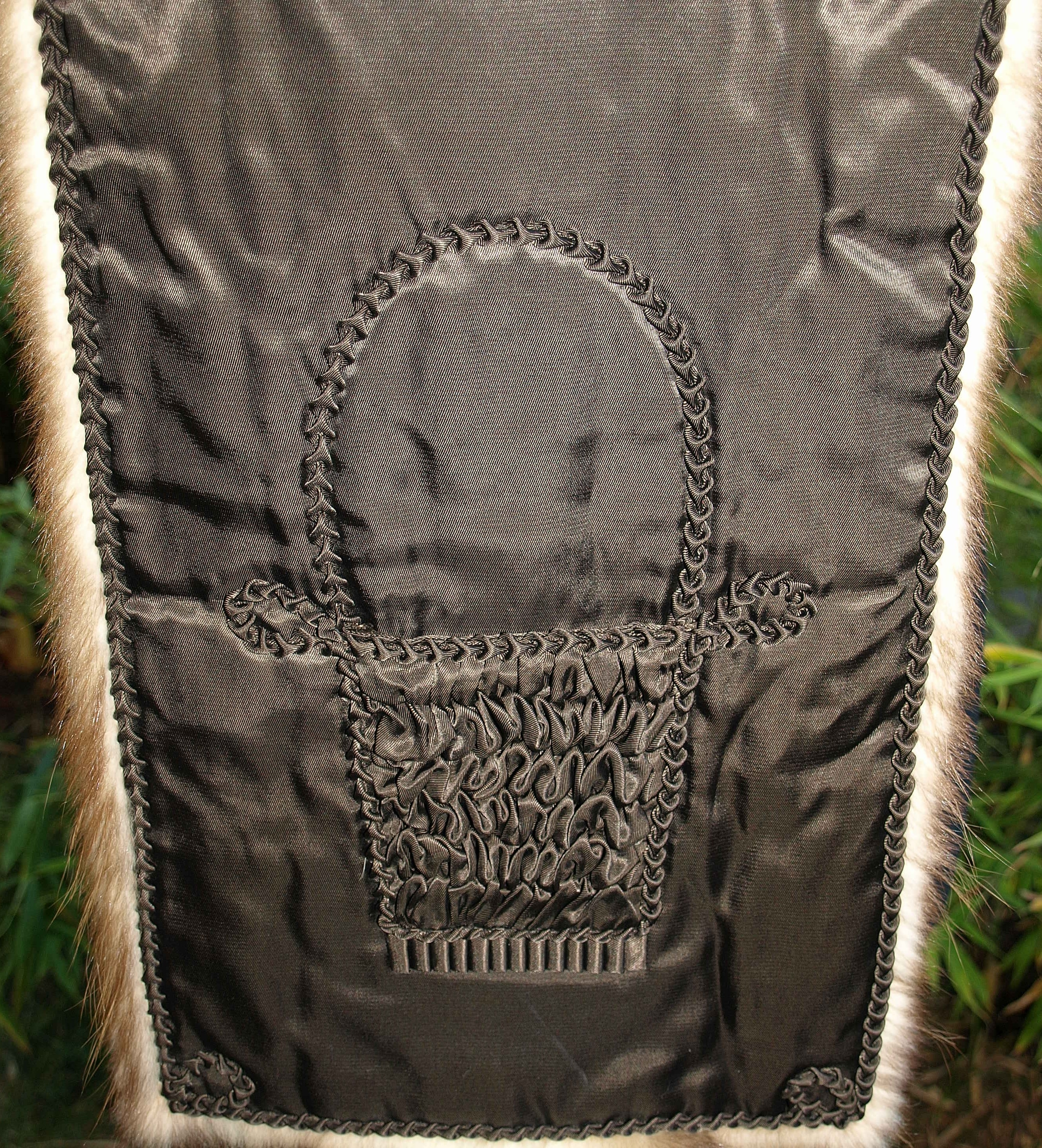 Lining of a beech marten (stone marten) fur stole, England c. 1930-1940